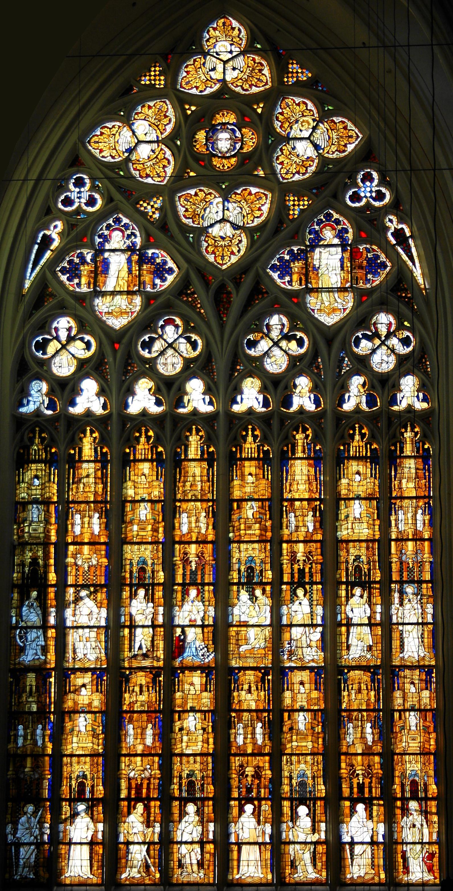 "Bergischer Dom" in Odenthal-Altenberg, Germany. Gothic stained-glass window in the west fassade.